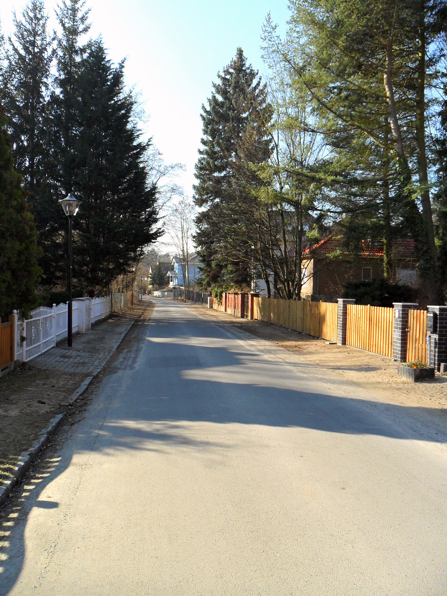 The Street Am Sandkrug at the former Entenschnabel, a distinctive course of the Berlin Wall in Glienicke, north of Berlin.